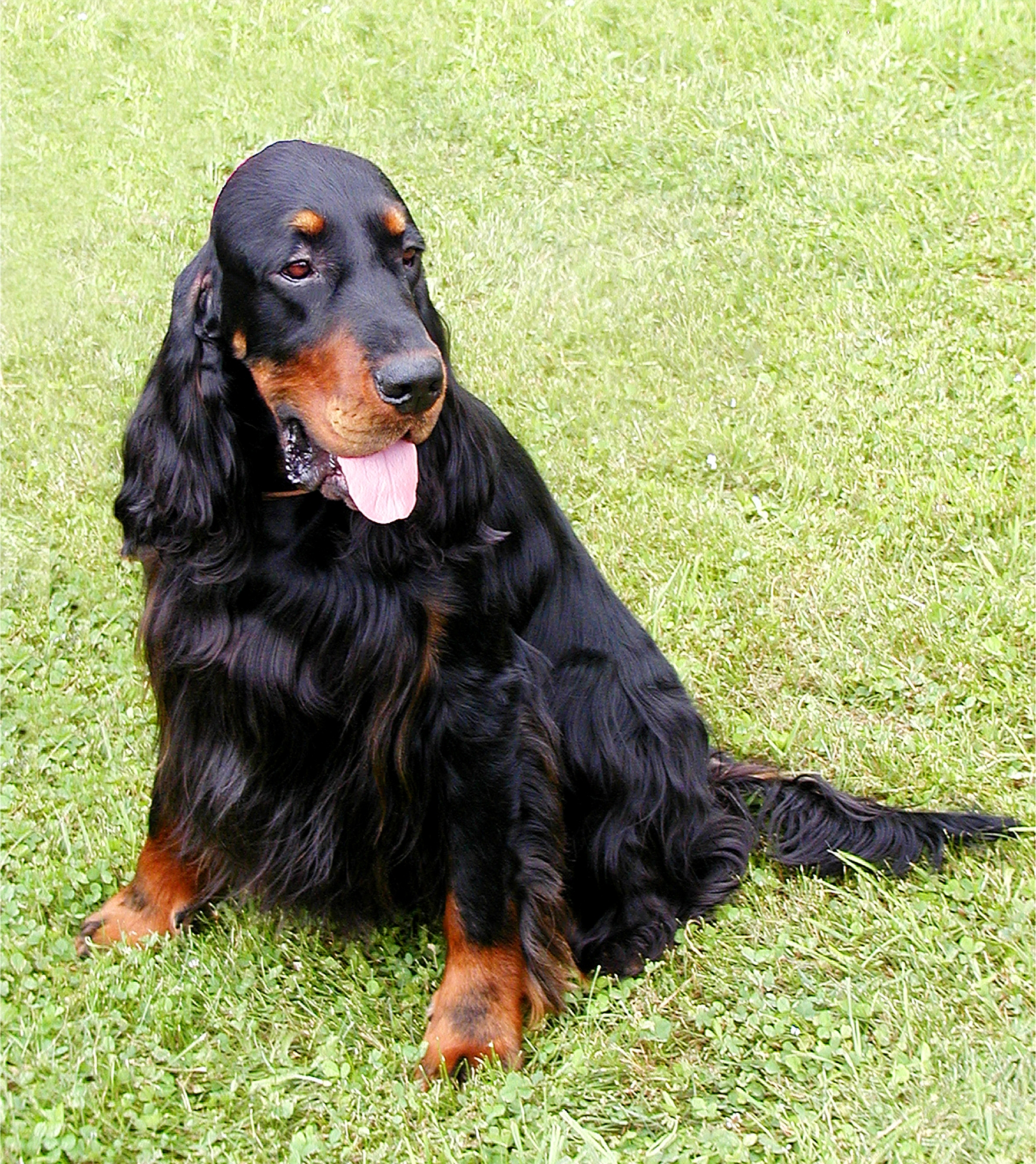 American & Australian Champion Brodruggan Black Knight (call name: Nike). A gorgeous example of a full-grown male Gordon Setter, weighing about 75 lbs. Nike is owned by Colleen O'Brien (Fair Isle Kennels, Font,PA), George & Dottie Hawke (Newtown Square, PA), Alison Rosskamp (Allilou Kennels, Font, PA) and Esther Joseph (Melbourne, Australia). Nike was handled in the ring, groomed by, is eternally loved by Kristin Karboski, with whom he now resides.